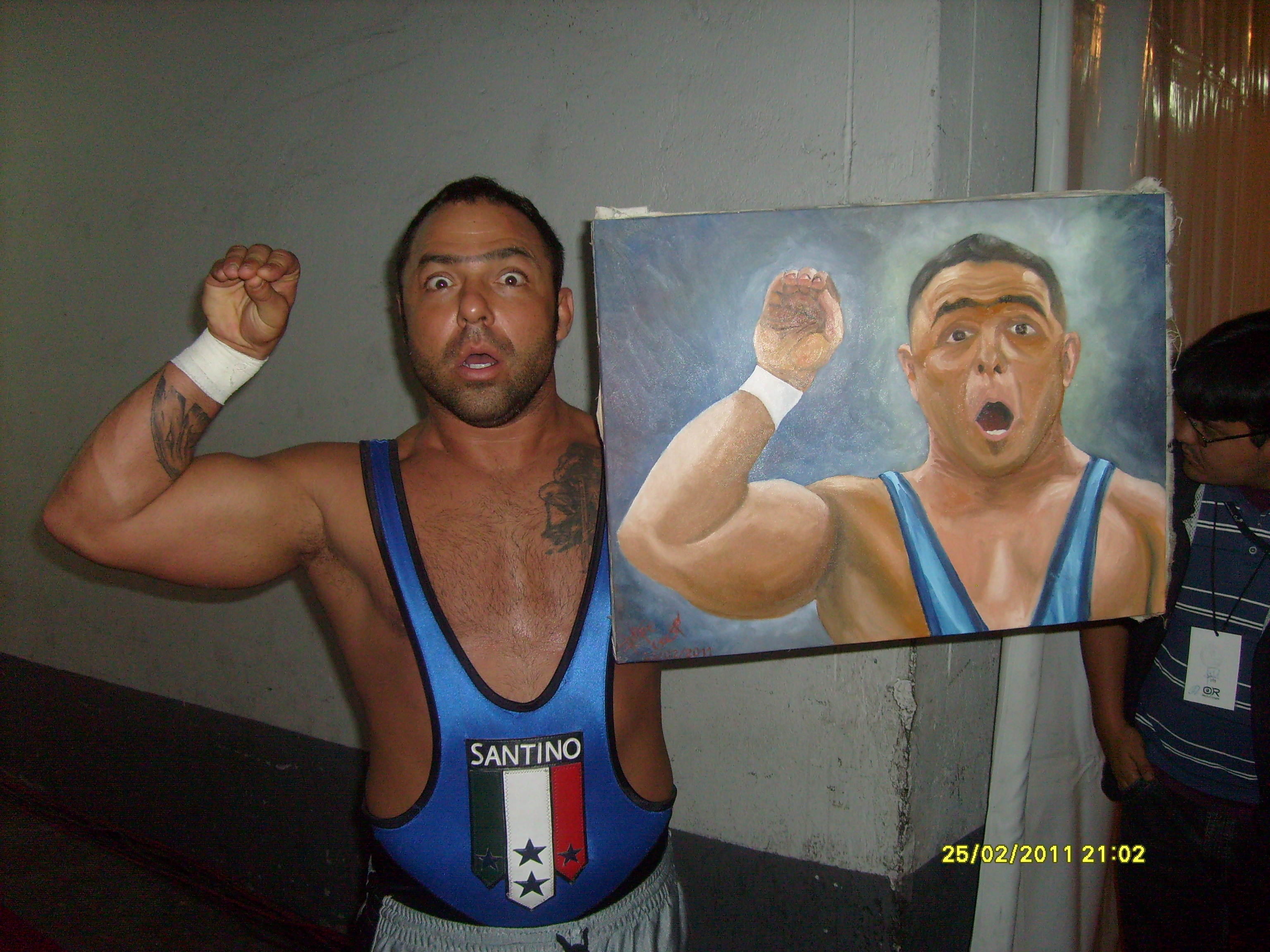 Santino Marella with characteristic pose that used to apply the attack, The Cobra, oil portrait holding a gift from a fan with the same pose of the attack. In the clubhouse of the Road to Wrestlemania Tour 2011 at Coliseo General Rumiñahui the city of Quito, Ecuador.